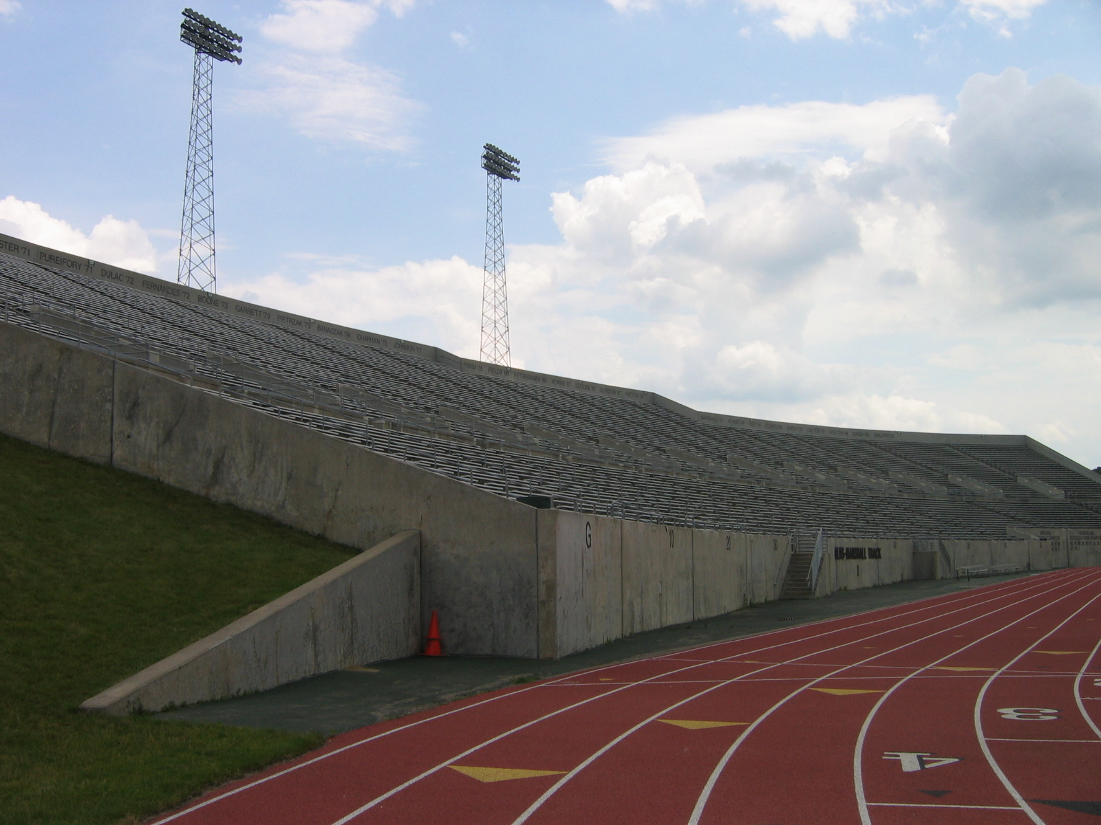 Rynearson Stadium Interior